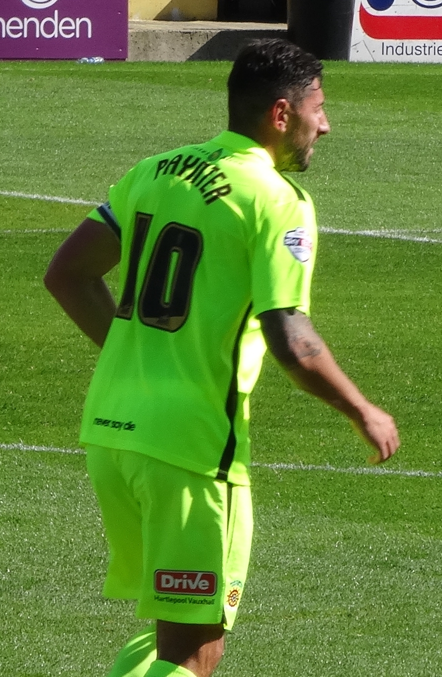 Billy Paynter playing for Hartlepool United against York City at Bootham Crescent, York on 15 August 2015